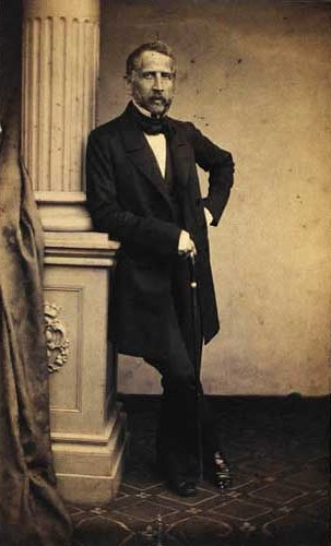 Frederik (Friederich) Cæsar Ludvig Rudolph du Plat (1804-1874), Danish, later German army officer